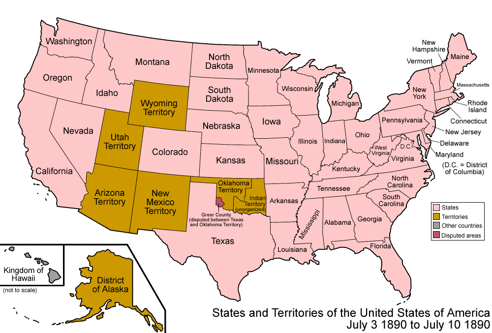 Map of the states and territories of the United States as it was from July 3 1890 to July 10 1890. On July 3 1890, Idaho Territory was admitted as the state of Idaho. On July 10 1890, Wyoming Territory was admitted as the state of Wyoming.